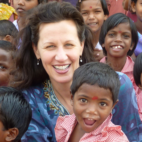 Caroline Boudreaux with kids